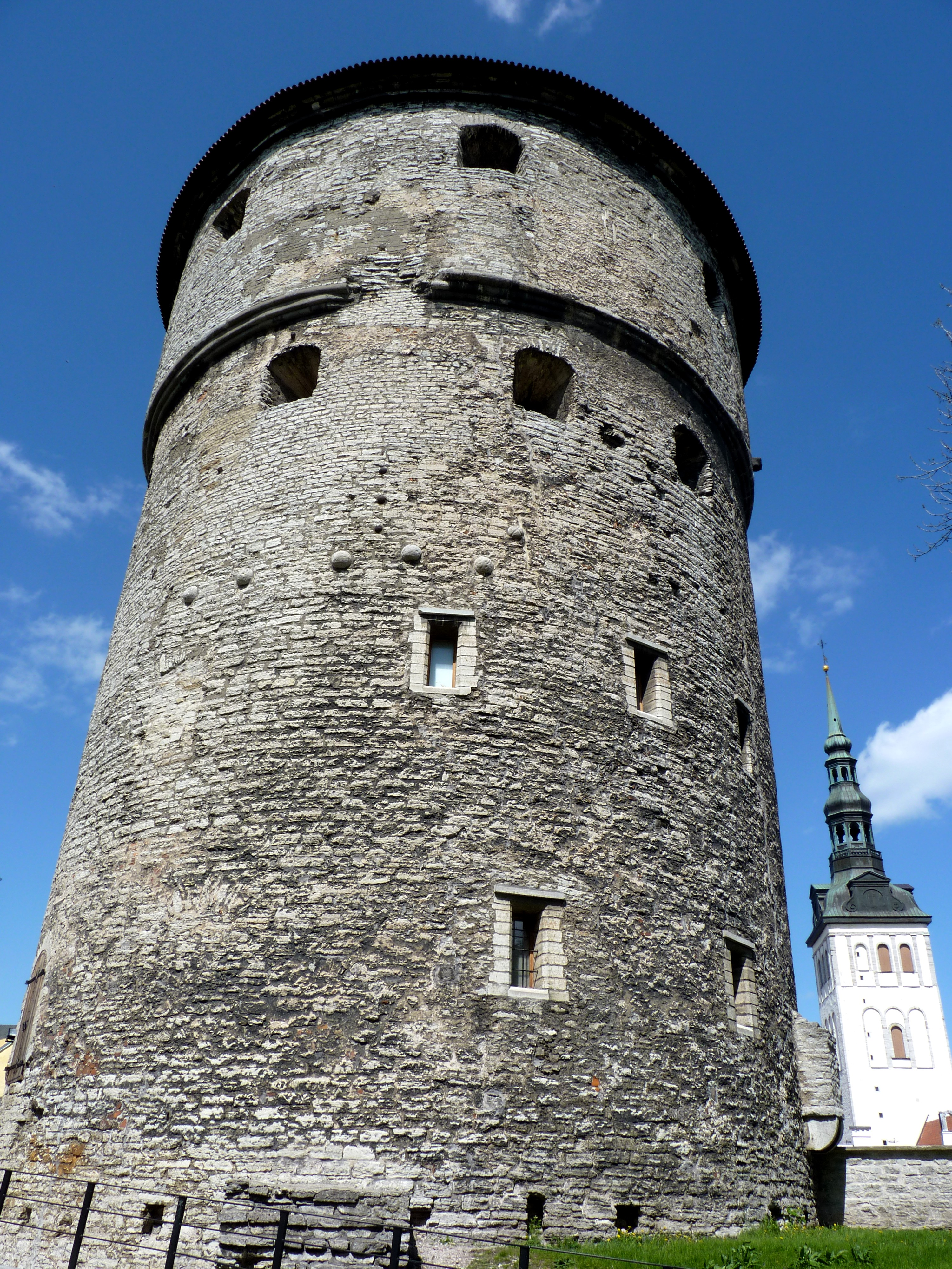 The Kiek in de Kök cannon tower in Tallinn. It's name means: Peep into the Kitchen.